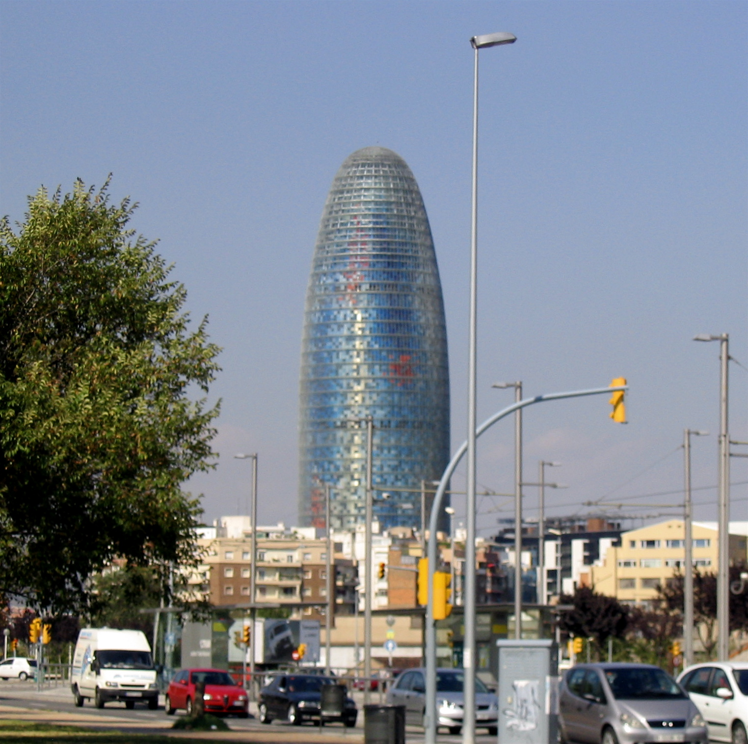 Agbar Tower, Barcelona, SpainBarcelona's Gherkin